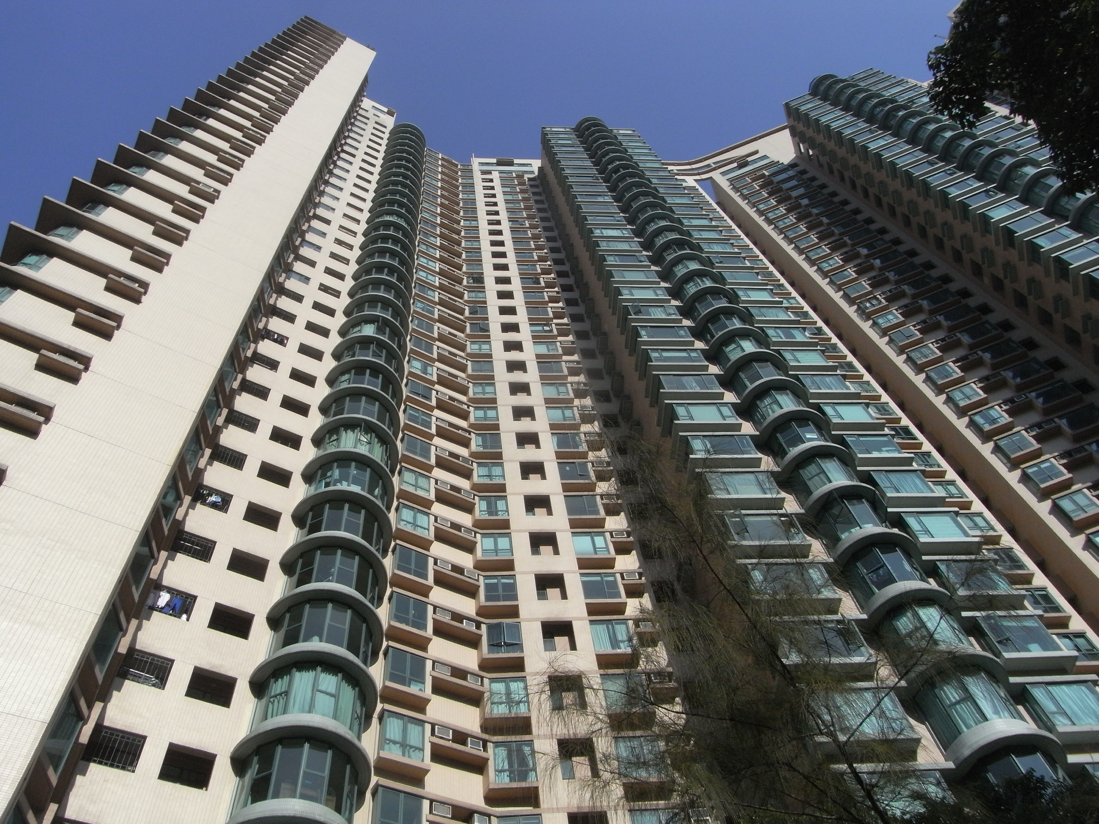 香港島半山區舊山頂道 - 曉峰閣